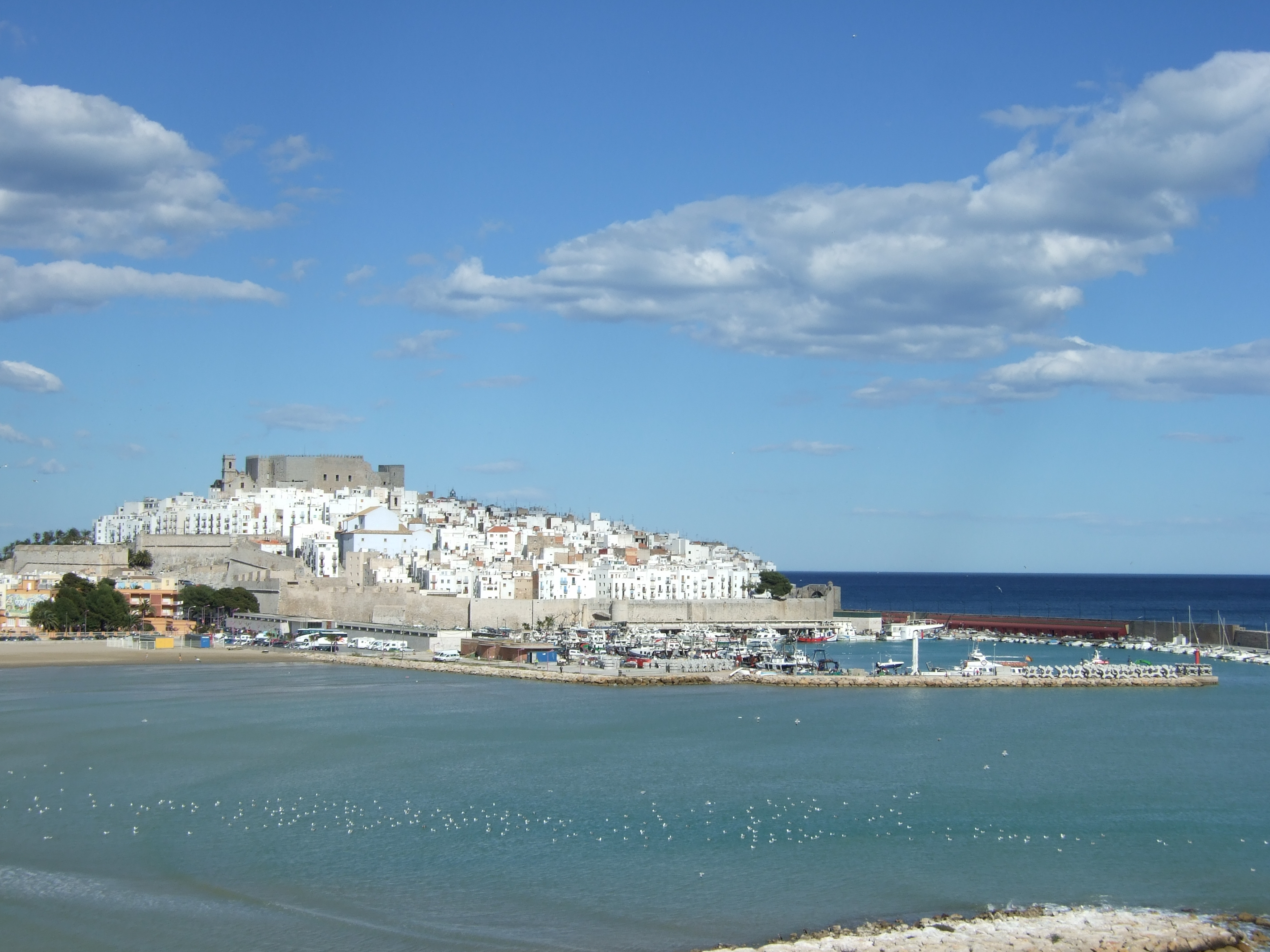 Peniscola (Spain).